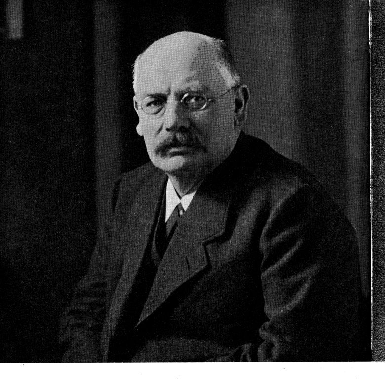 Wilhelm Weule